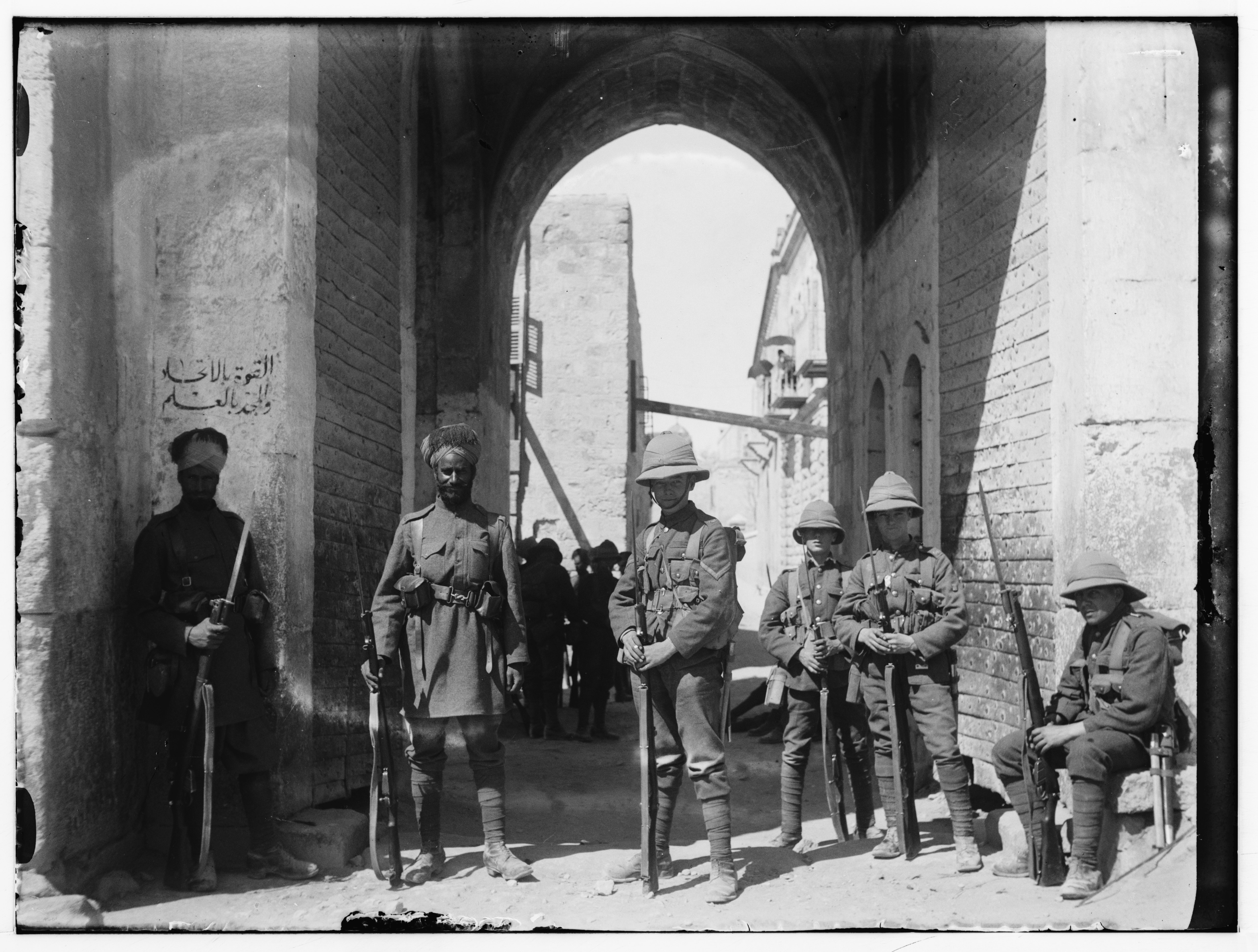 Title: Indian and British guards, St. Stephen's Gate, Jerusalem Abstract/medium: G. Eric and Edith Matson Photograph Collection Physical description: 1 negative